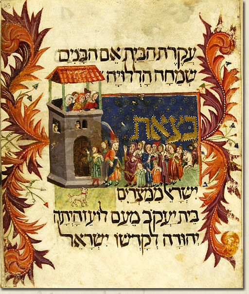 Illustration in the Kaufmann Haggadah. The bearded Moses in his pointed red hat with a feather is leading the Jews, who are carrying dough wrapped in cloths over their shoulders (Ex 12:34-35). On the left an Egyptian city lying on their way can be seen (Baal Zephon? cf. Ex 14:2), its gates closed while from above the inhabitants watch the Jews passing by and knocking on the gates, while a dog wearing a crimson neckband is standing in the foreground. The figure of the dog, which seems to have been treated very well in recent times, is an allusion to the passage: “But against the children of Israel no dog shall stick out its tongue” (Ex 11:7). The exact meaning of the expression is not quite clear, it seems to mean something like “to stick the tongue out, to threat someone.” Our illustration apparently follows the traditional interpretation going back to Rashi quoted above: the dog's tongue seems to be missing. In the background the crowned figure of Pharaoh emerges, pursuing the refugees.